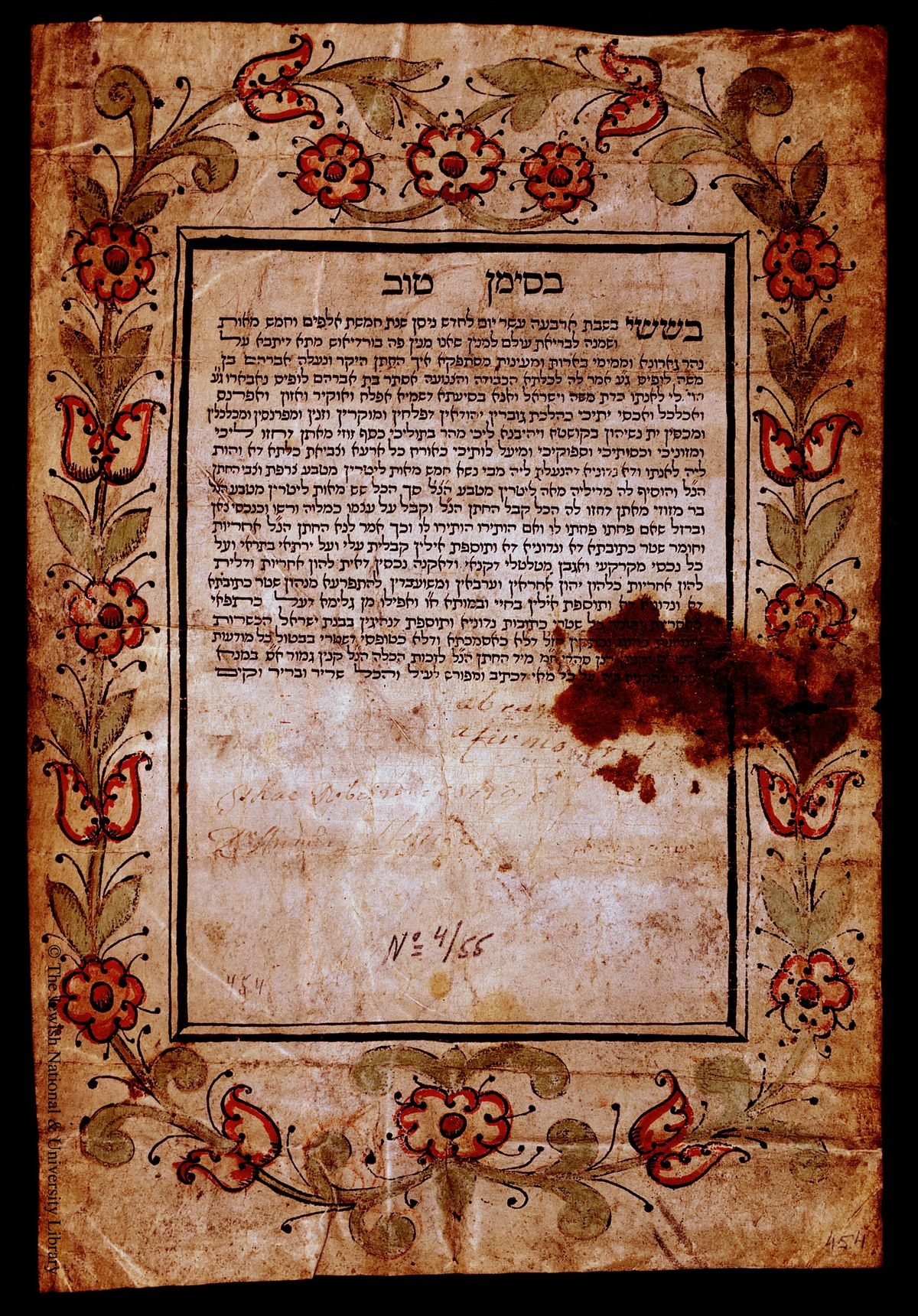 Ketubah from The Ketubot Collection of the National Library of Israel